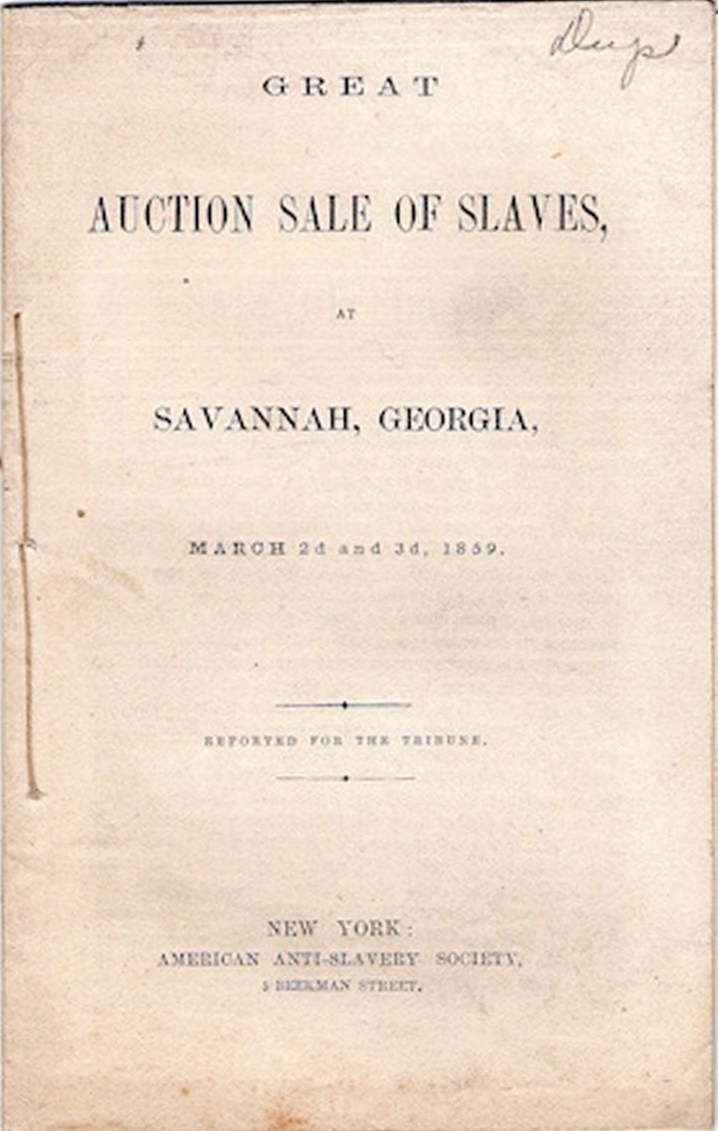 Pamphlet: Great Auction Sale of Slaves, at Savannah, Georgia, March 2d & 3d, 1859. (New York: American Anti-Slavery Society, 1859).